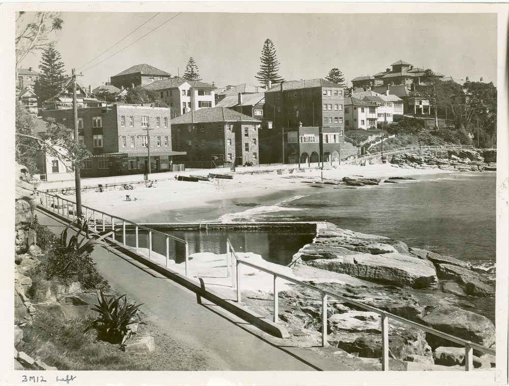 The Rock Pool at Fairy Bower Beach, Manly Dated: No date Digital ID: 12932_a012_a012X2450000064 Rights: We'd love to hear from you if you use our photos. Many other photos in our collection are available to view and browse on our website using Photo Investigator.